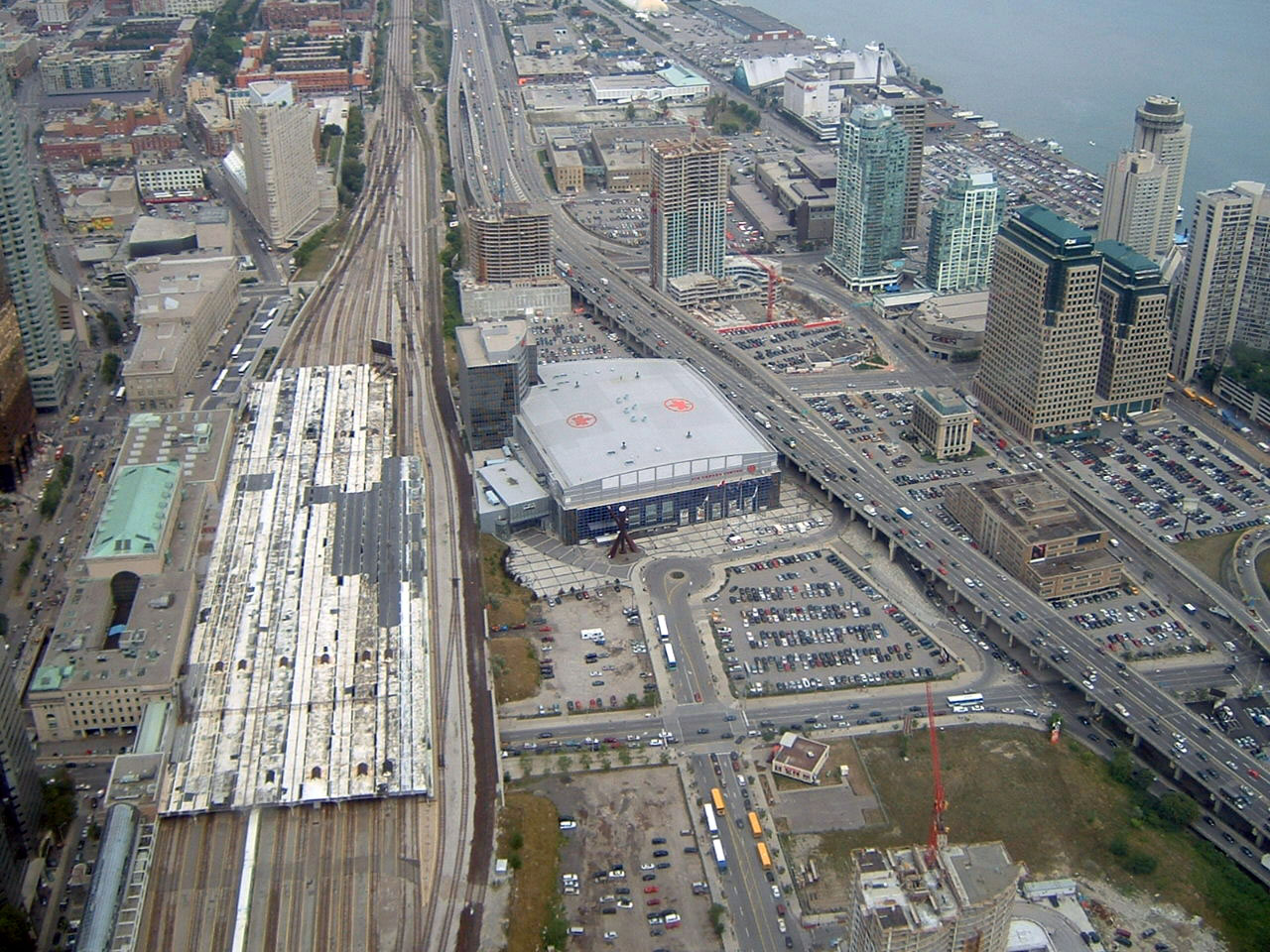 The eastern portion of the Railway Lands, prior to redevelopment, except for the Air Canada Centre, built along its eastern boundary and Infinity Condominiums, which can be seen under construction at the bottom of the picture. This image is a colour-corrected version of the original.